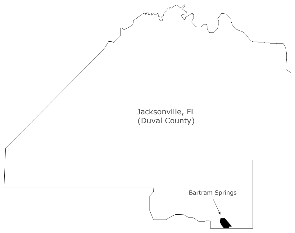 Shows the location of the Bartram Springs development in Jacksonville, FL, USA.